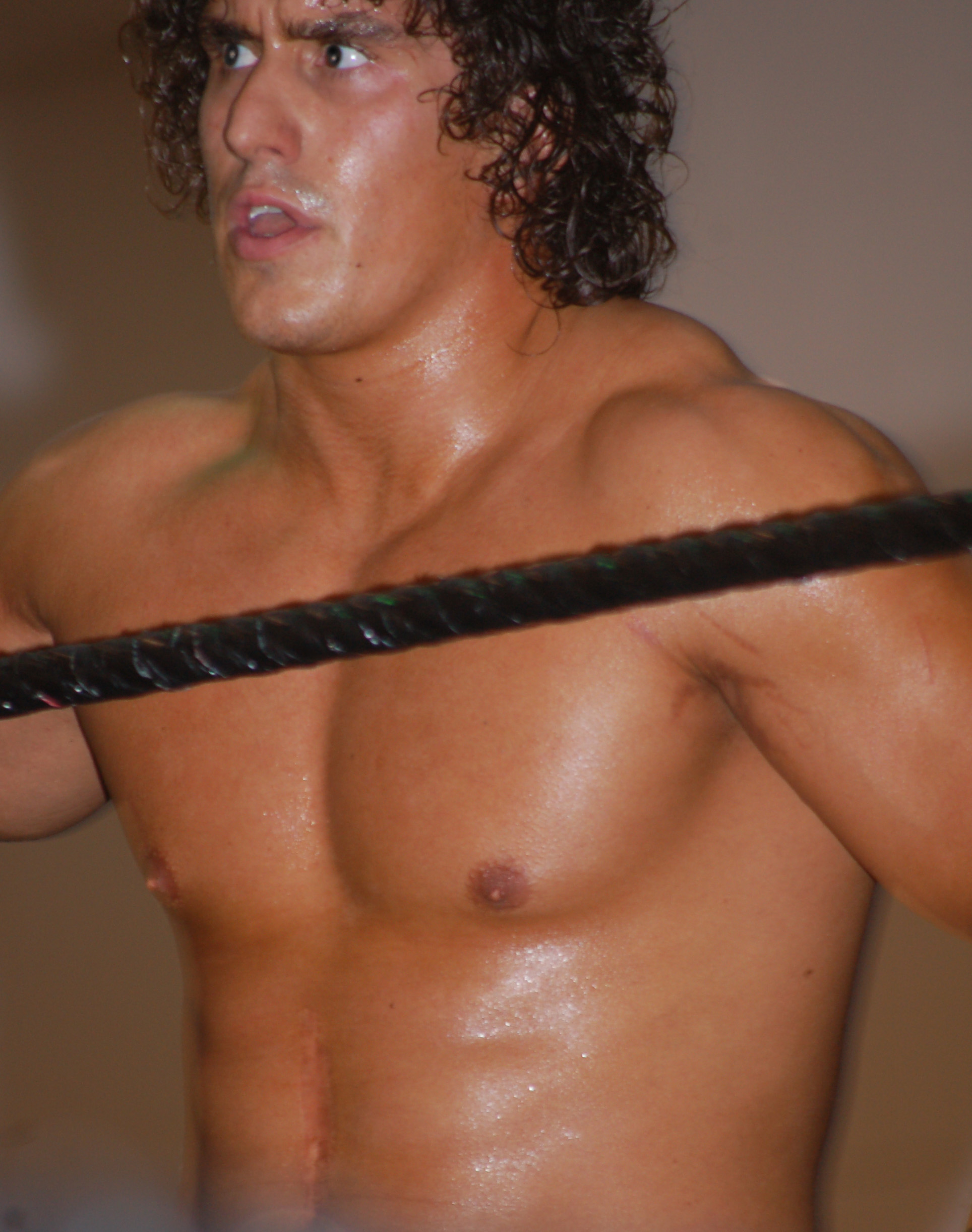 Mike Hutter in Crystal River Florida at FCW event.